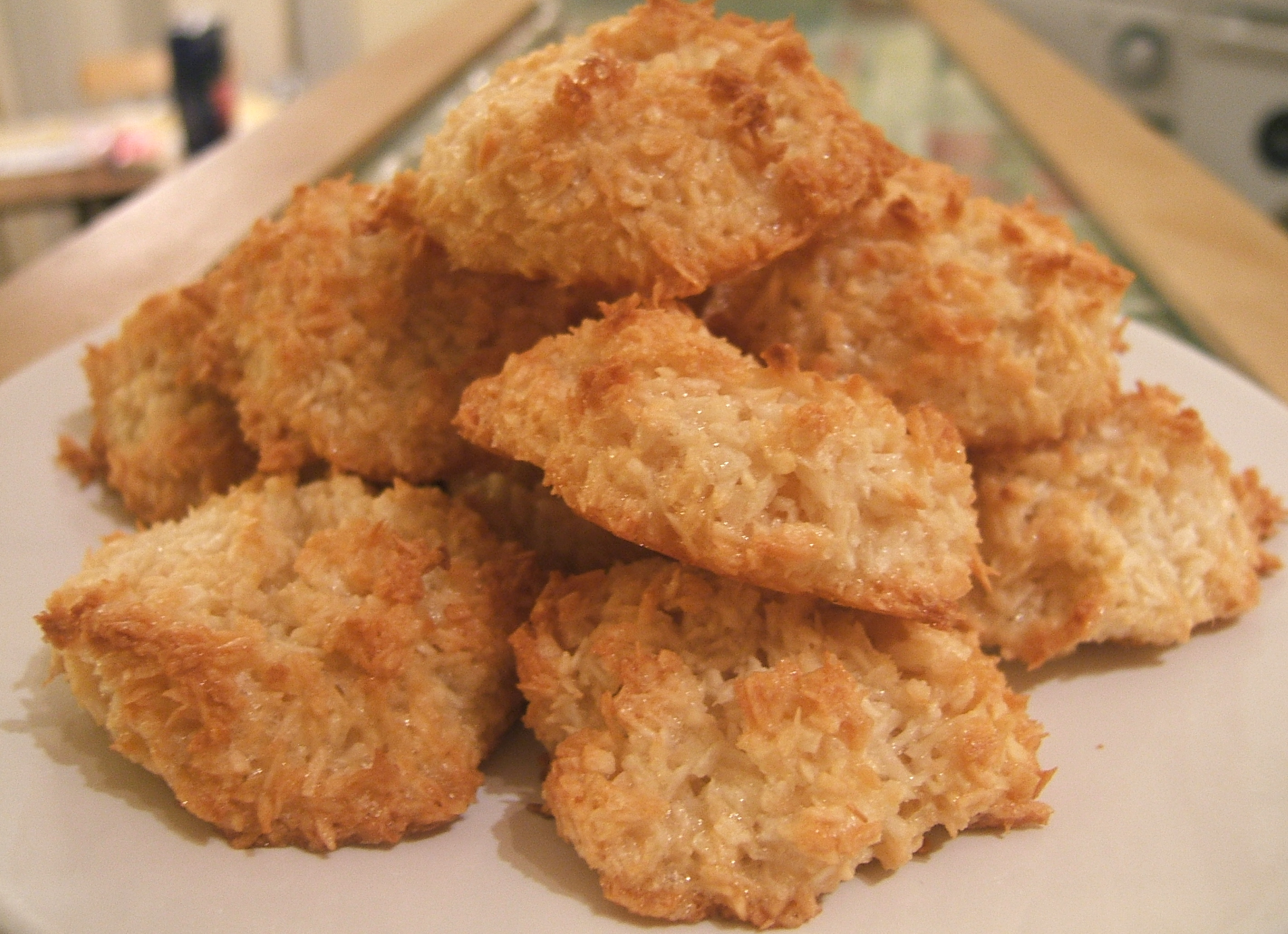 Coconut macaroons, a type of popular meringue-like cookie which has an egg white base and prominently features dried (and often sweetened) coconut meat shavings.